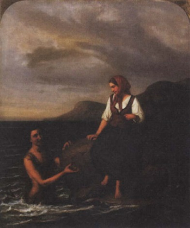 Edvard Lehmann - Liden Gunver og Havmanden